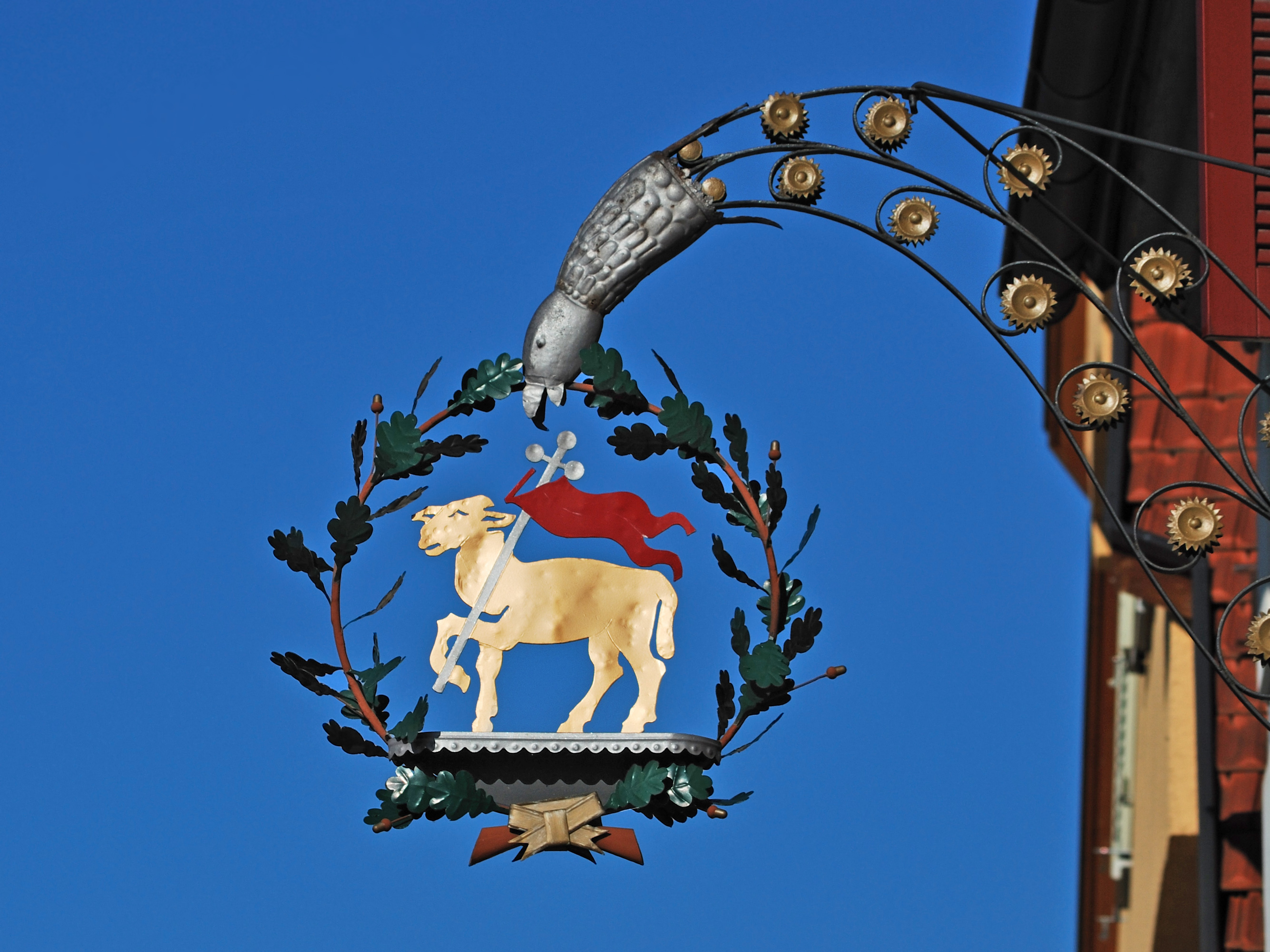 Inn sign of the restaurant Lamm (lamb) in Ditzingen in the German Federal State Baden-Württemberg.